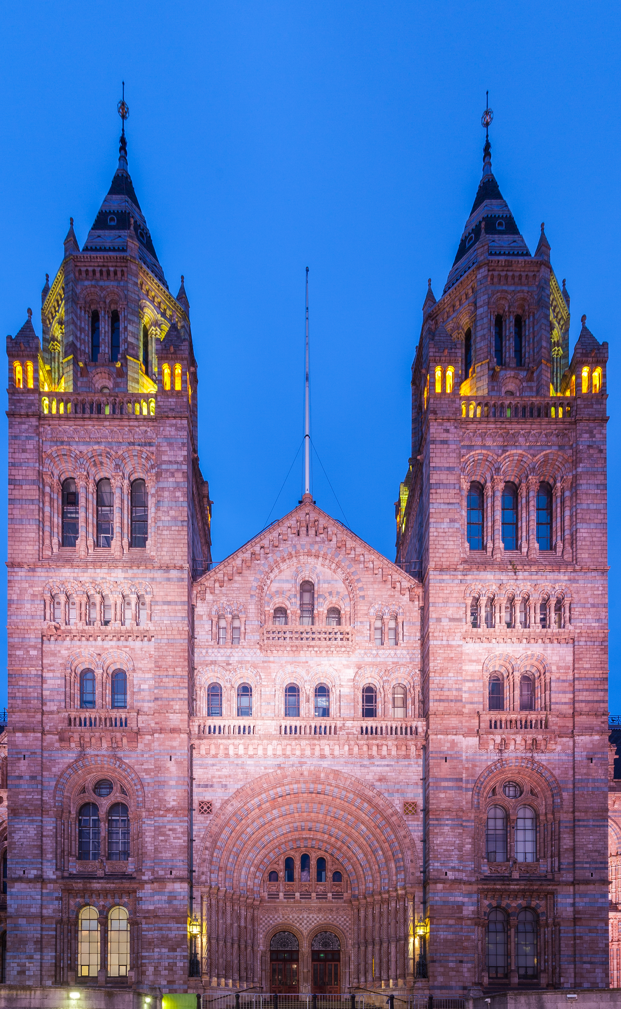 Natural History Museum, London, England